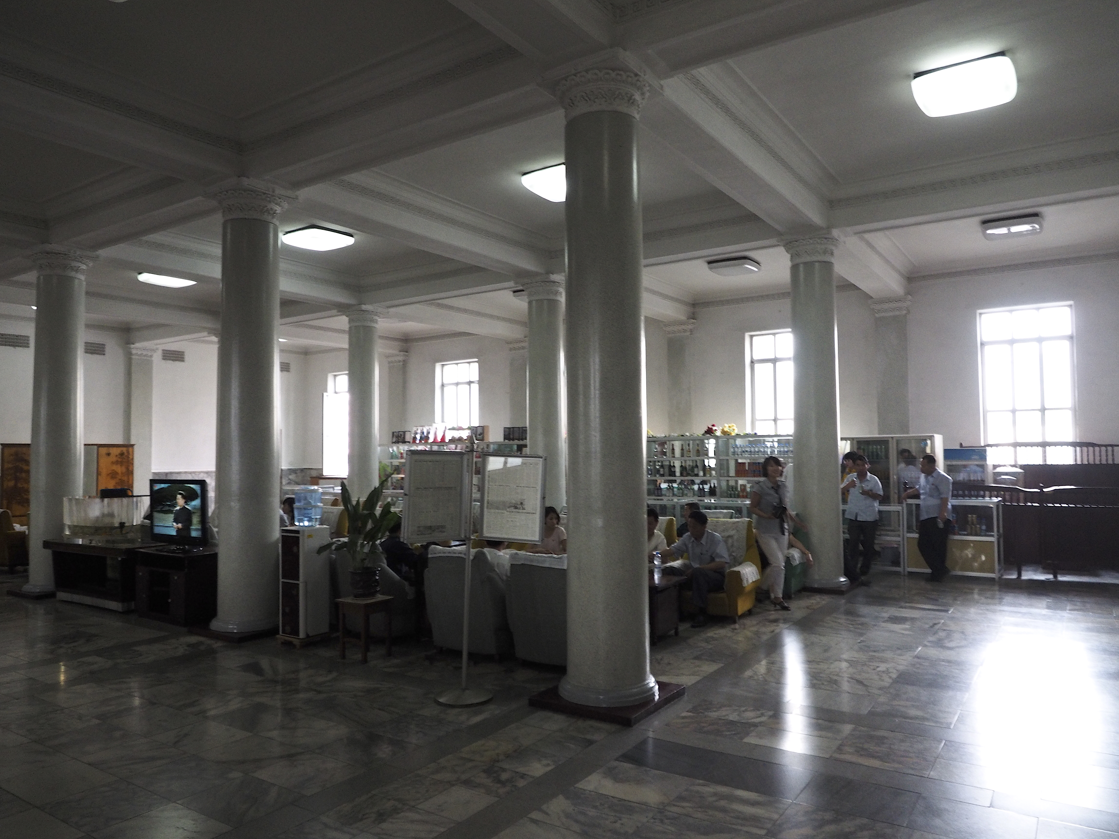 refreshment Room at the Pyongyang train station